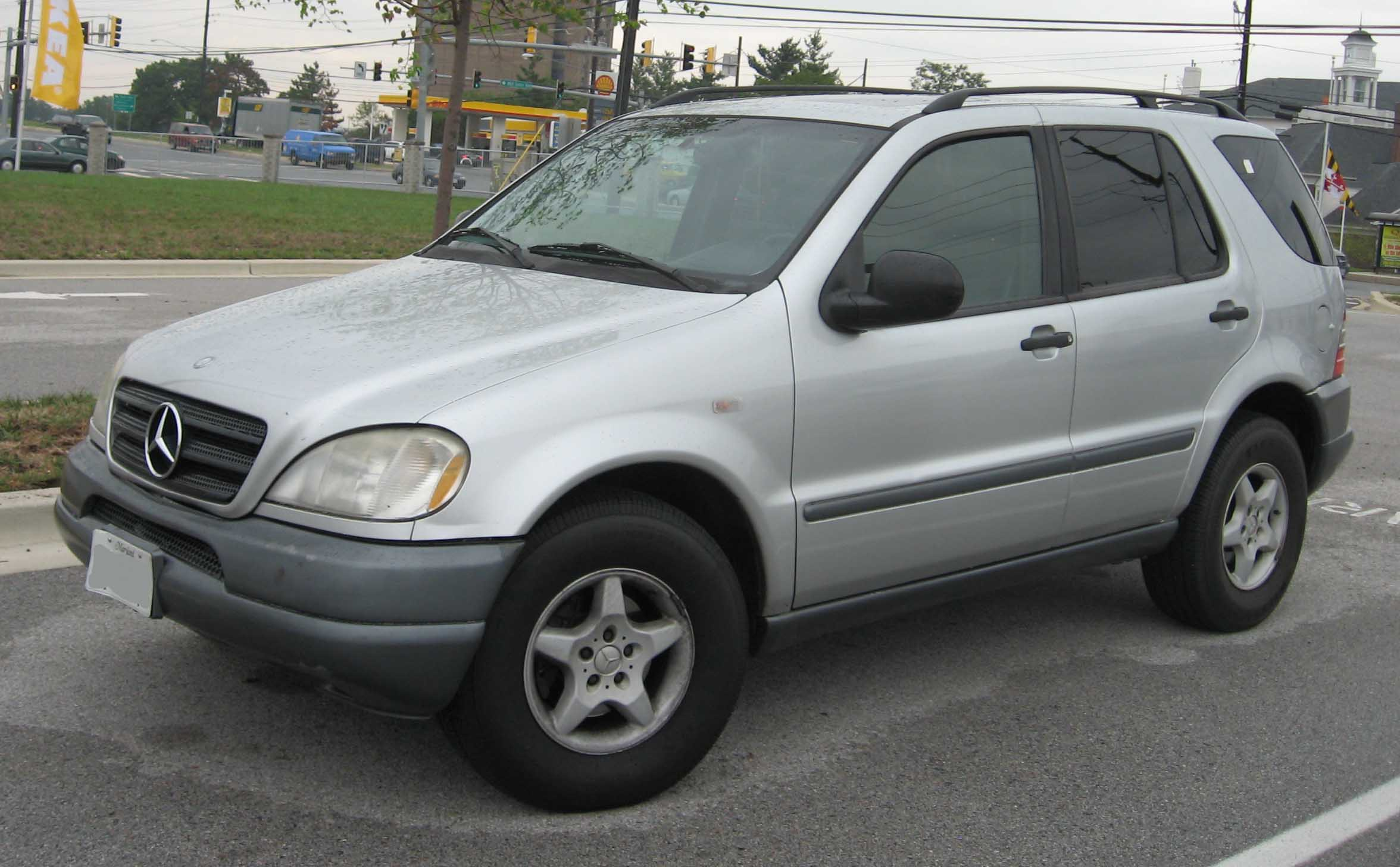 1997-2001 Mercedes-Benz ML320 photographed in College Park, Maryland, USA.